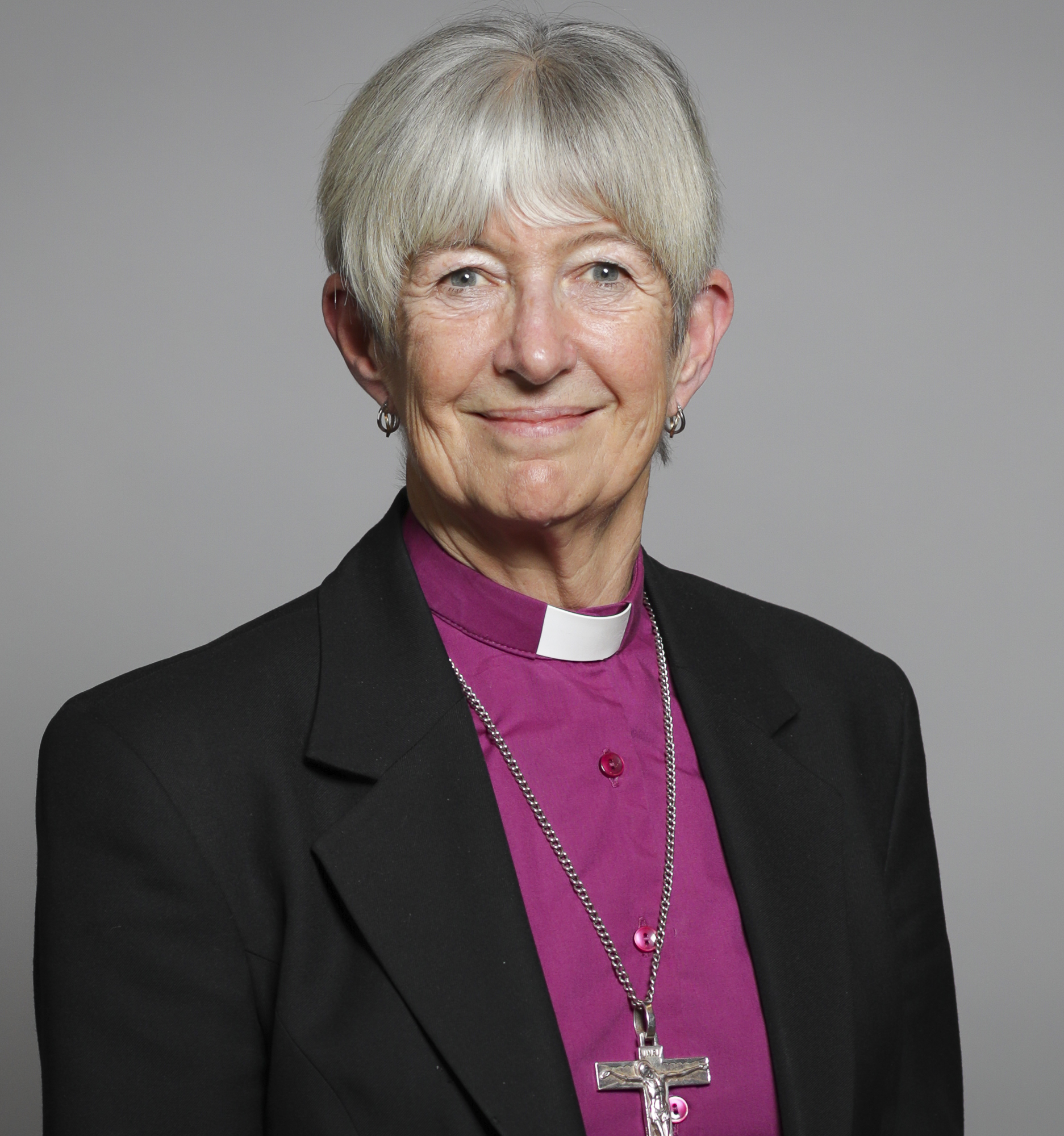 Official portrait of The Lord Bishop of Newcastle 3×2 portrait of The Lord Bishop of Newcastle